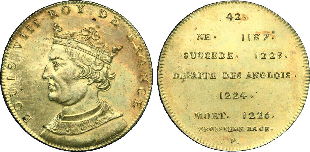 Commemorative medal depicting a fictional portrait of Louis VIII "the Lion" of France (13th century). From a series of coins issued during the reign of Louis XVIII (19th century)